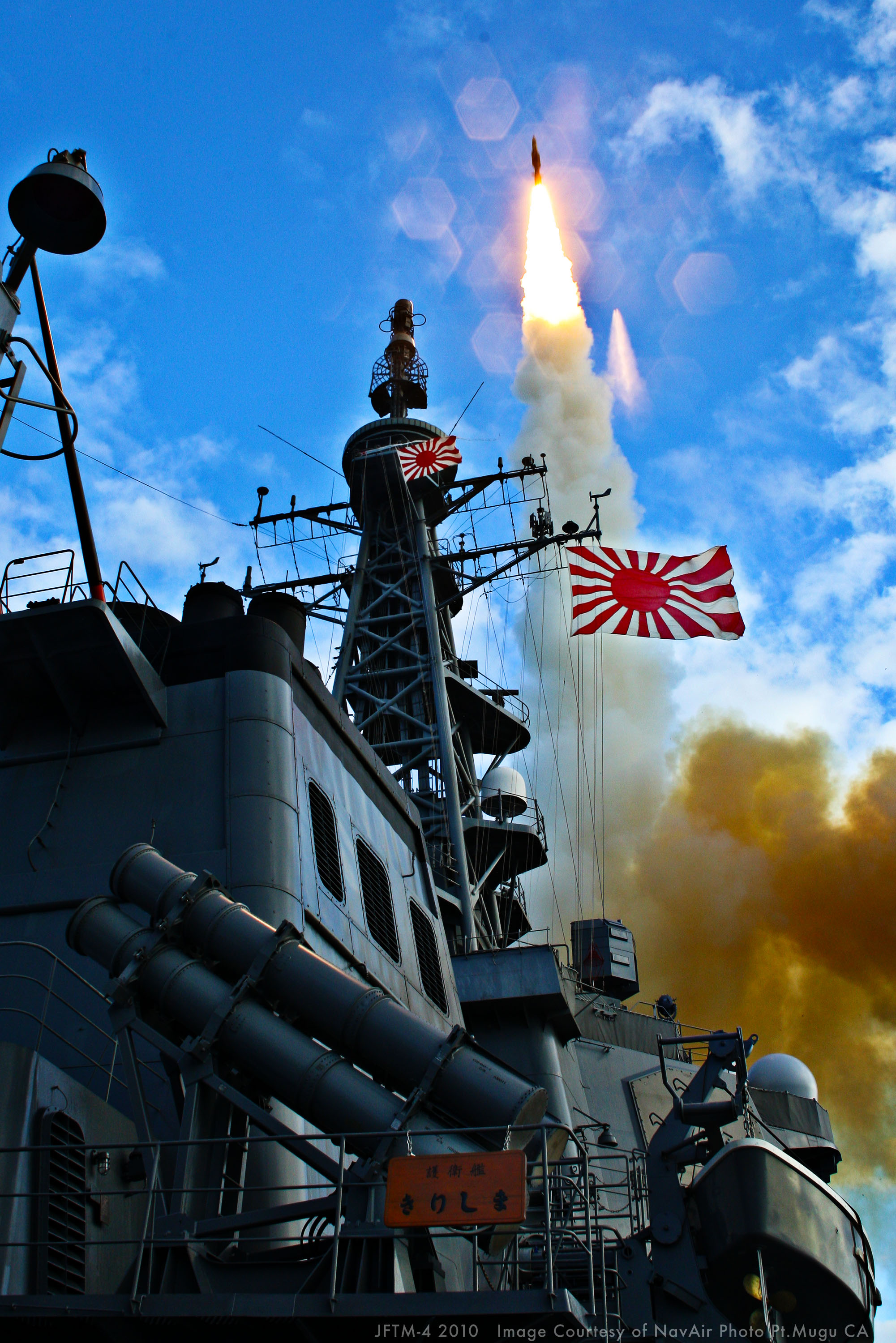 PACIFIC OCEAN (Oct. 29, 2010) An SM-3 (Block 1A) missile is launched from the Japan Maritime Self-Defense Force destroyer JS Kirishima (DDG-174), successfully intercepting a ballistic missile target launched from the Pacific Missile Range Facility at Barking Sands, Kauai, Hawaii. The test was conducted as a Japan and U.S. joint exercise, with the U.S. Navy Aegis guided-missile cruiser USS Lake Erie (CG 70) and the U.S. Navy Aegis guided-missile destroyer USS Russell (DDG 59) detection and tracking cooperation. (U.S. Navy photo/Released)